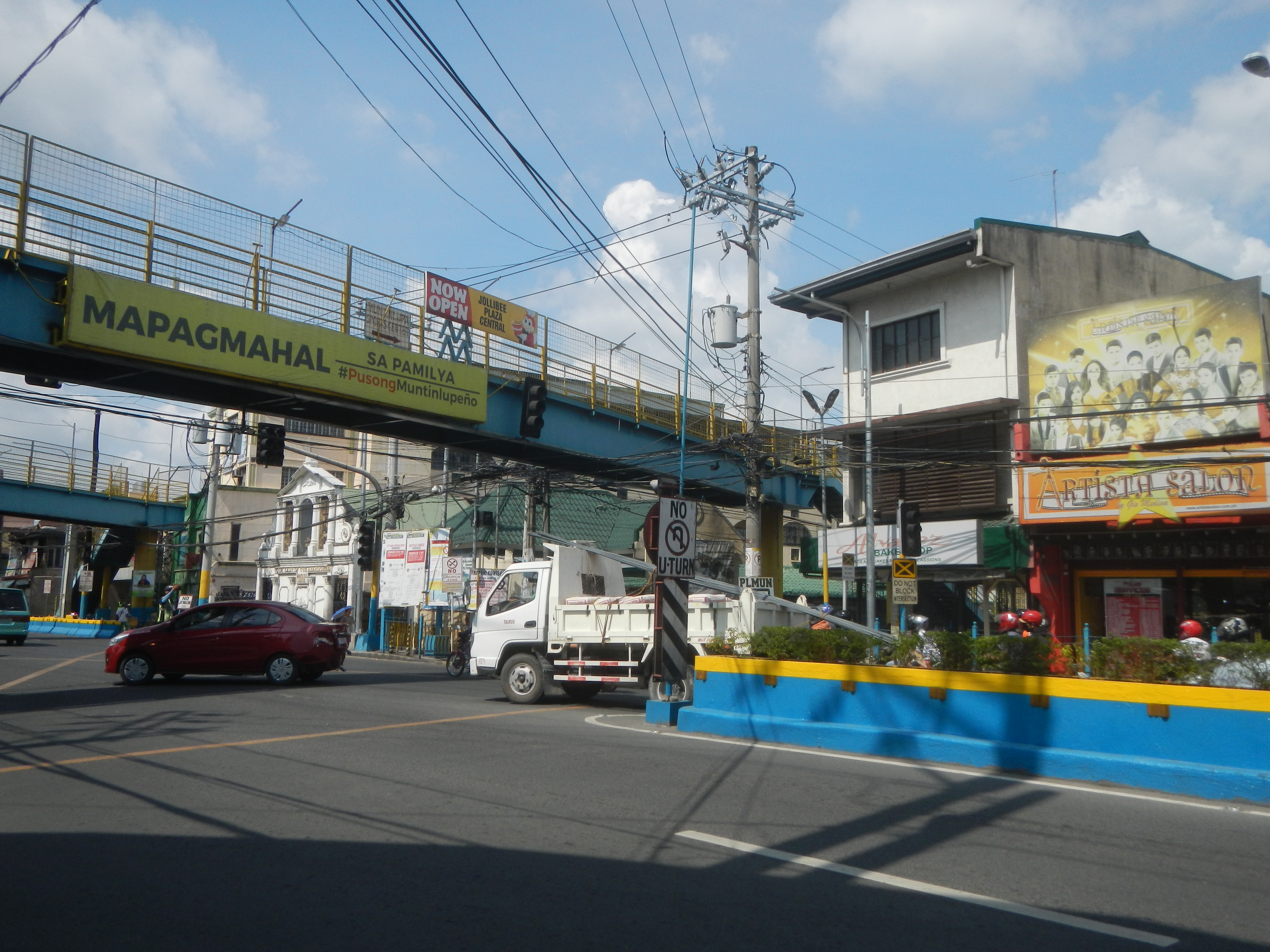 Poblacion Footbridge, Plaza Central and New Public Market, Muntinlupa City Proper Poblacion - Railroad Station Road, City of Muntinlupa Insular Bilibid Prison Bridge (SLEx, Railroad Station Road, Poblacion, City of Muntinlupa) from National Road (Alabang, Bayanan, Putatan and Poblacion), Muntinlupa City Philippine highway network National Road (Tunasan, Muntinlupa City) Barangays Putatan 14°23'50"N 121°2'14"E Poblacion 14°22'48"N 121°1'53"E City of Muntinlupa Tunasan Tunasan 14°22'1"N 121°1'58"E Poblacion, Muntinlupa New Bilibid Prison Bureau of Corrections (Philippines) Putatan, Muntinlupa Tunasan Philippine highway network (Note: Judge Florentino Floro, the owner, to repeat, Donor Florentino Floro of all these photos hereby donate gratuitously, freely and unconditionally Judge Floro all these photos to and for Wikimedia Commons, exclusively, for public use of the public domain, and again without any condition whatsoever).